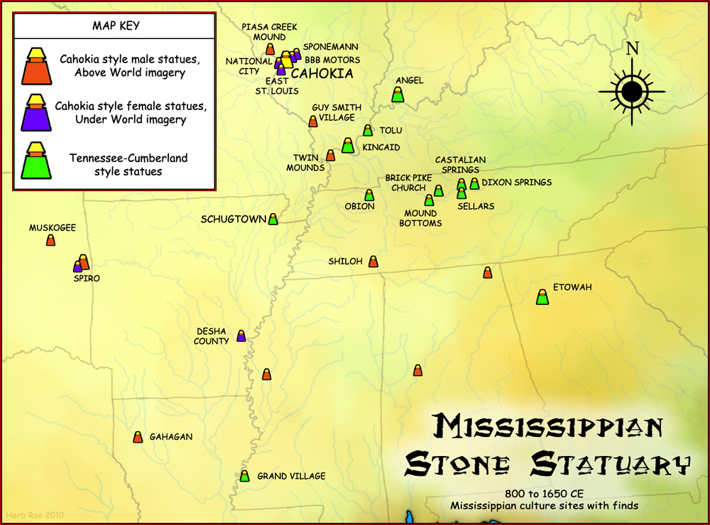 A map showing finds of Mississippian stone statuary made by the Mississippian cultures from 800 to 1650 CE. Among the important sites are Cahokia, Etowah, Spiro, Kincaid and Angel.